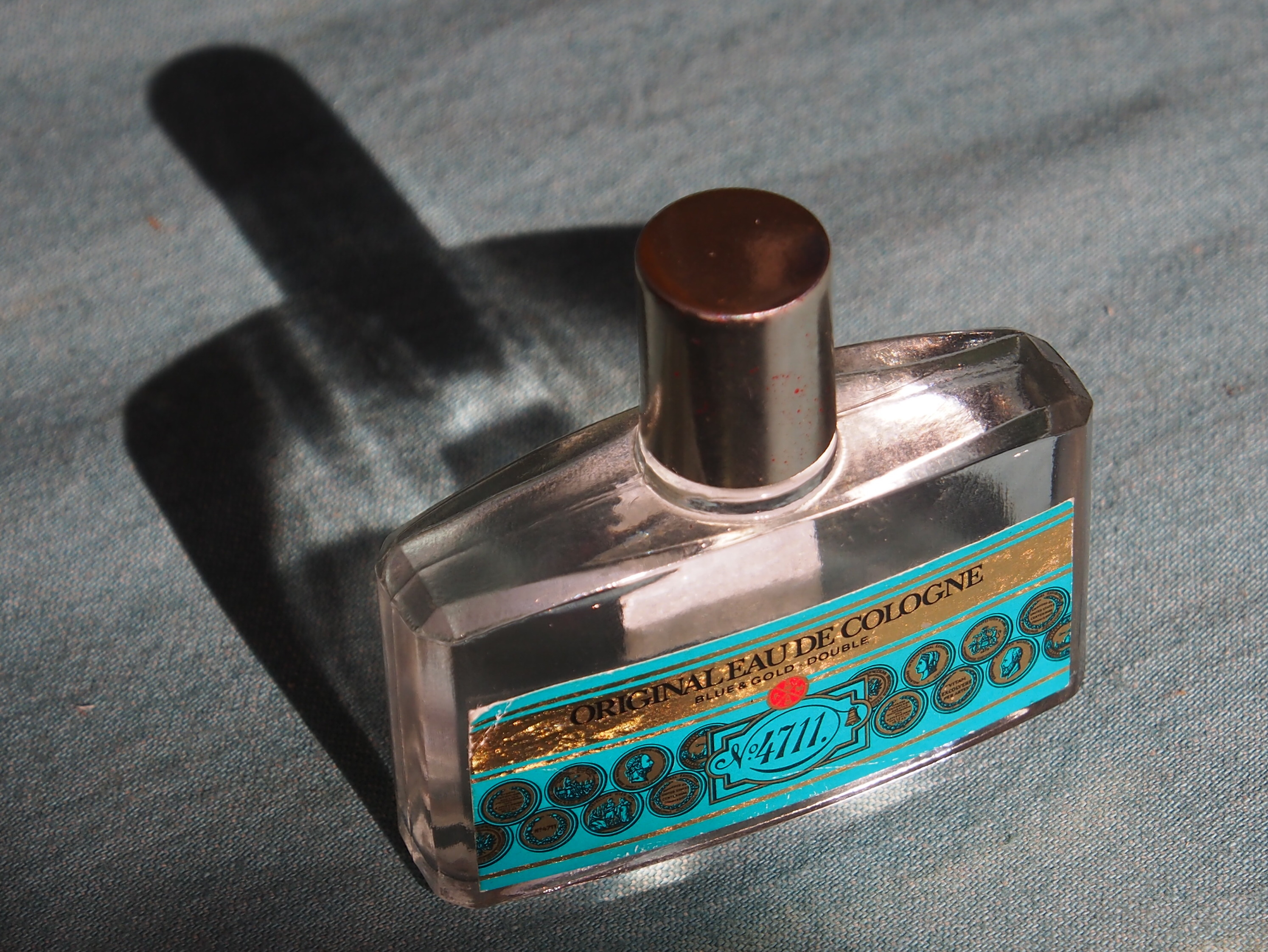 No4711 Original Eau De Cologne, Bleu & Gold Double old bottle.